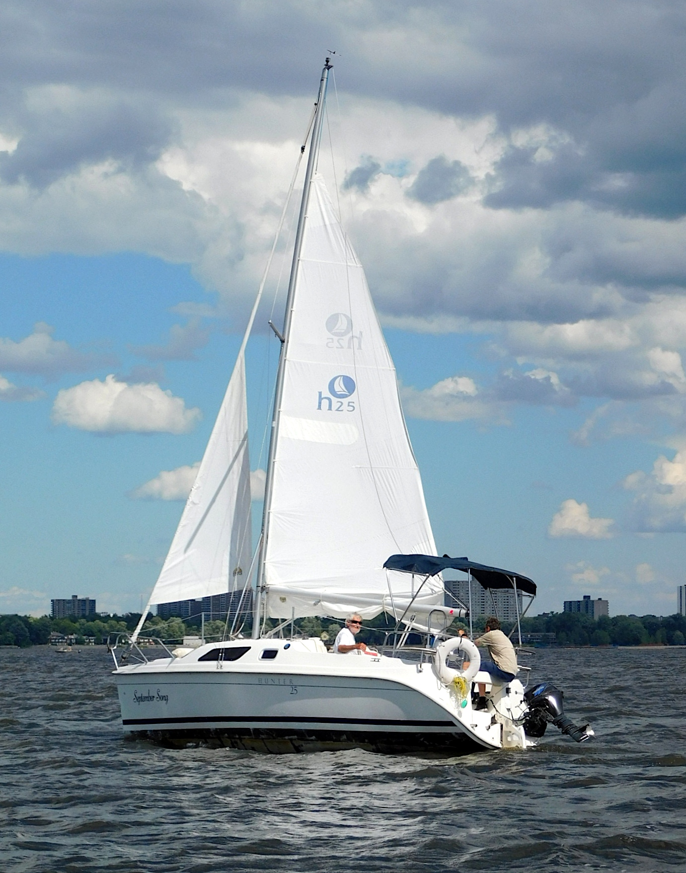 A Hunter 25 sailboat named September Song.